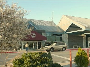 Terminal, Hagerstown Airport